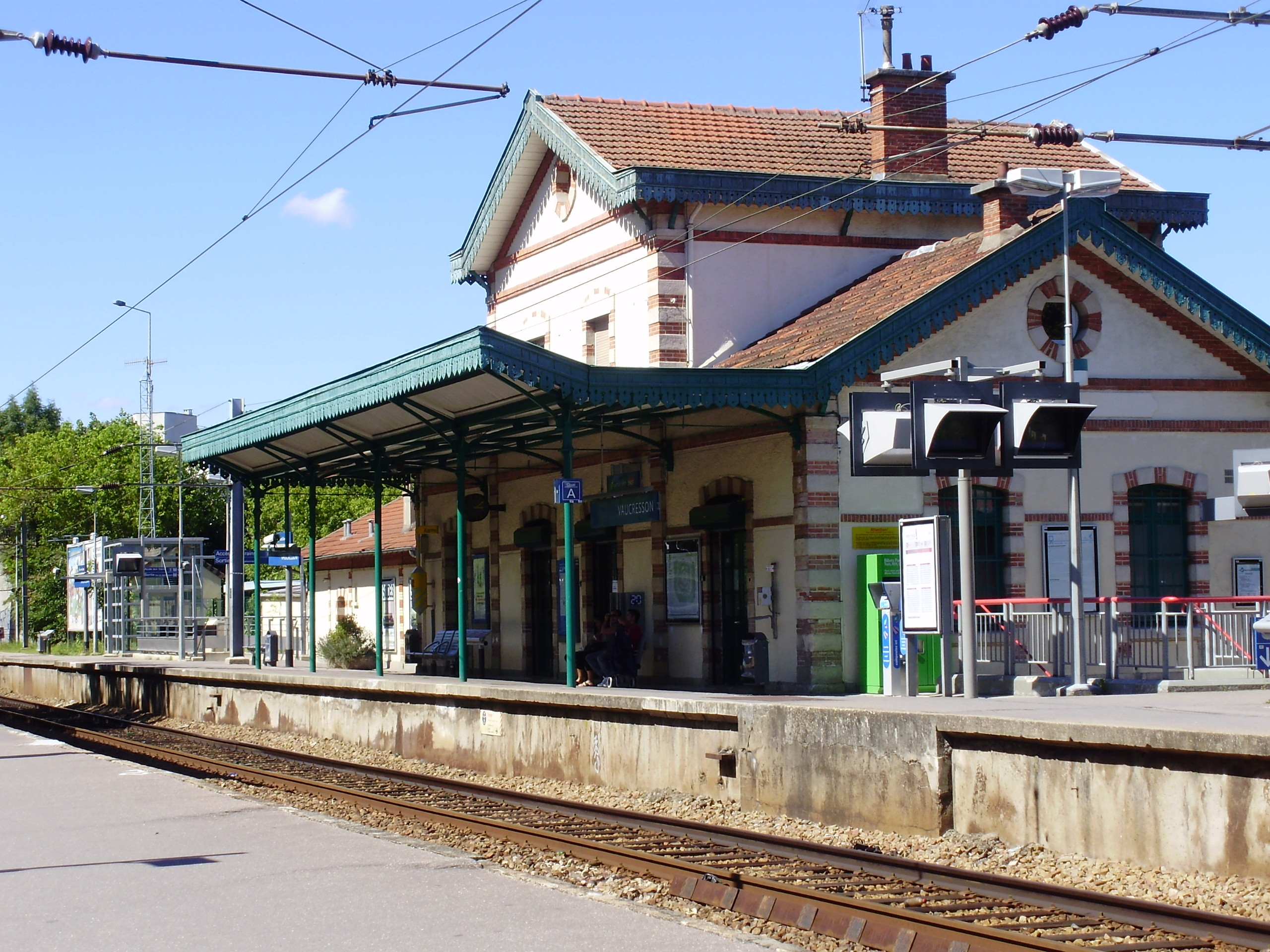 Vaucresson station, Hauts-de-Seine, France (view of the station building from the platform to Saint-Nom-la-Bretèche)